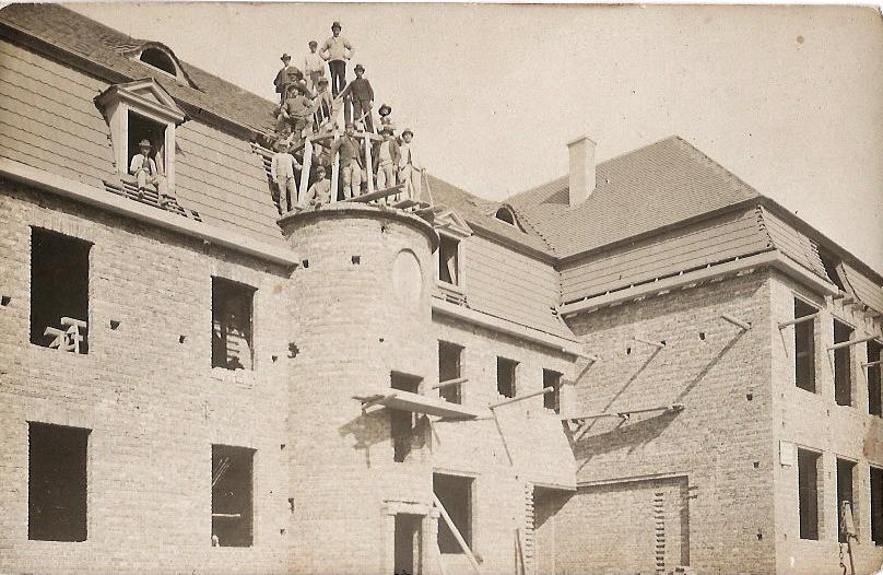 School building in 1912.